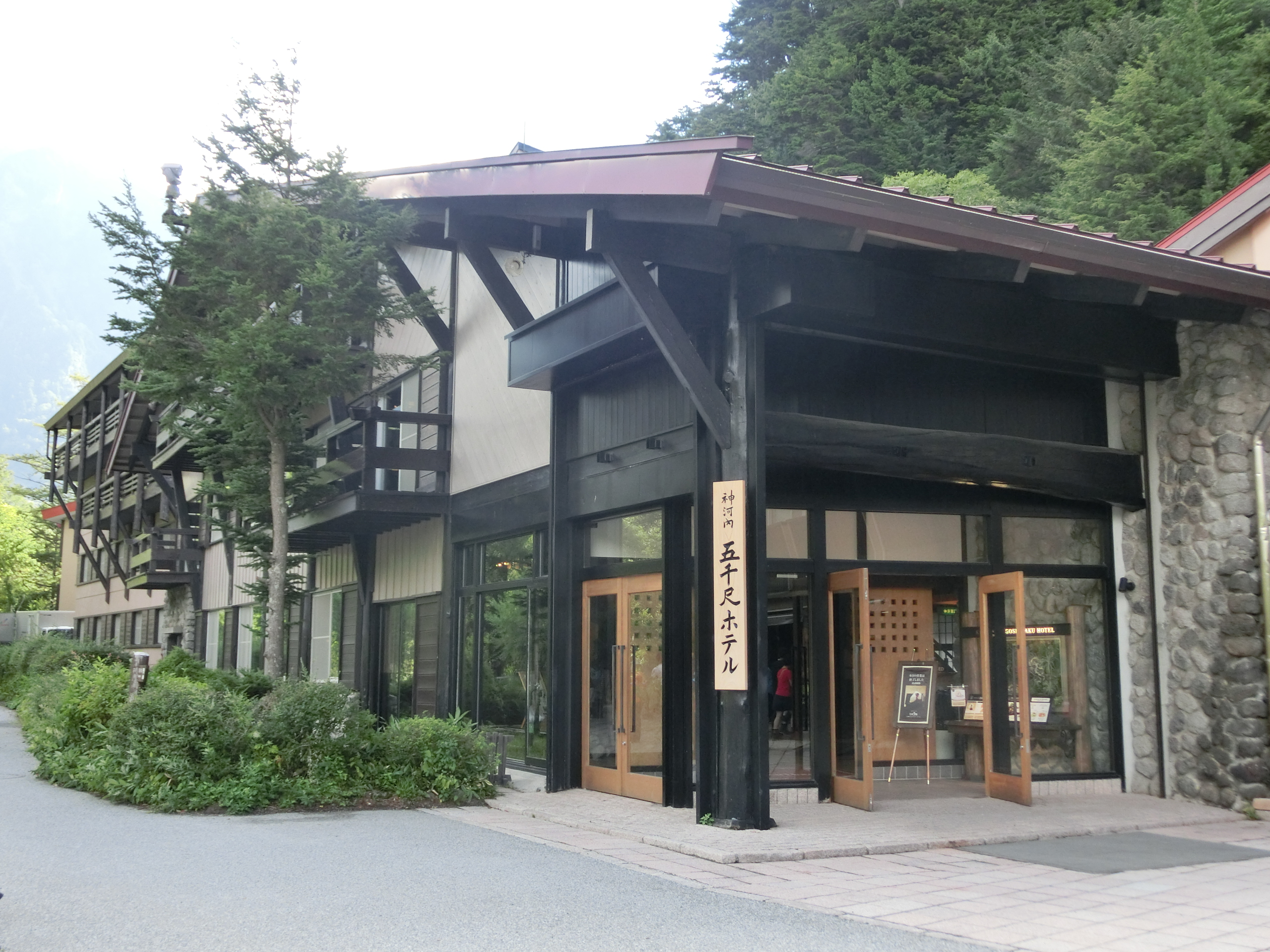 Gosenjaku Hotel